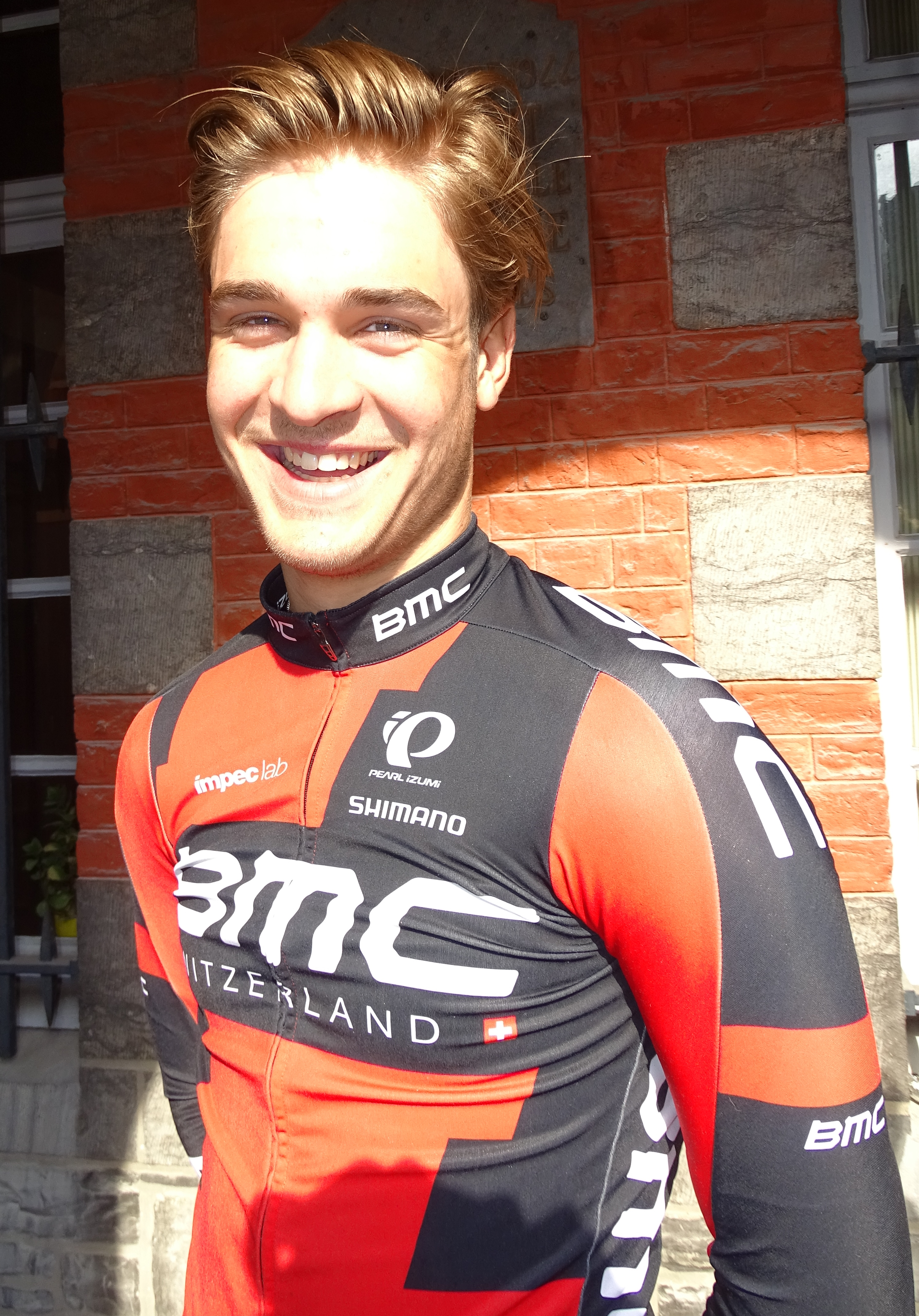 Triptyque des Monts et Châteaux 2016 Depicted person: Depicted team: BMC Development